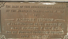 Plaque to commemorate re-naming of the reservoir after James MacRitchie